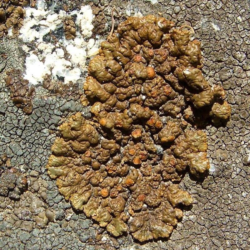 Scientific Name: Lecanora mellea W. A. Weber Common Name: Honey Rim-Lichen Certainty: positive (notes) Location: California; San Gabriels Front Range; Mt Wilson Date: 20070715